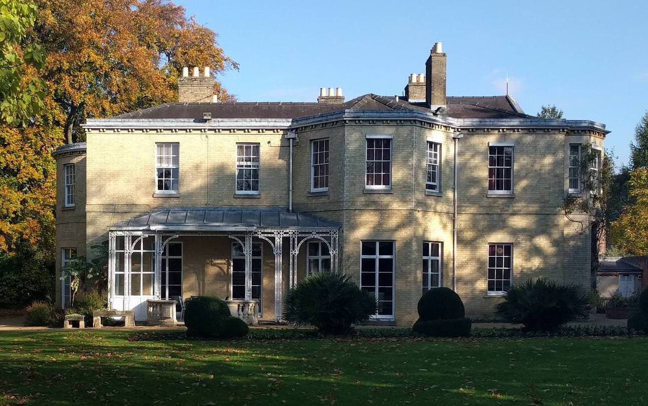 The Grove house at Fitzwilliam College, University of Cambridge. Taken in Winter 2017.